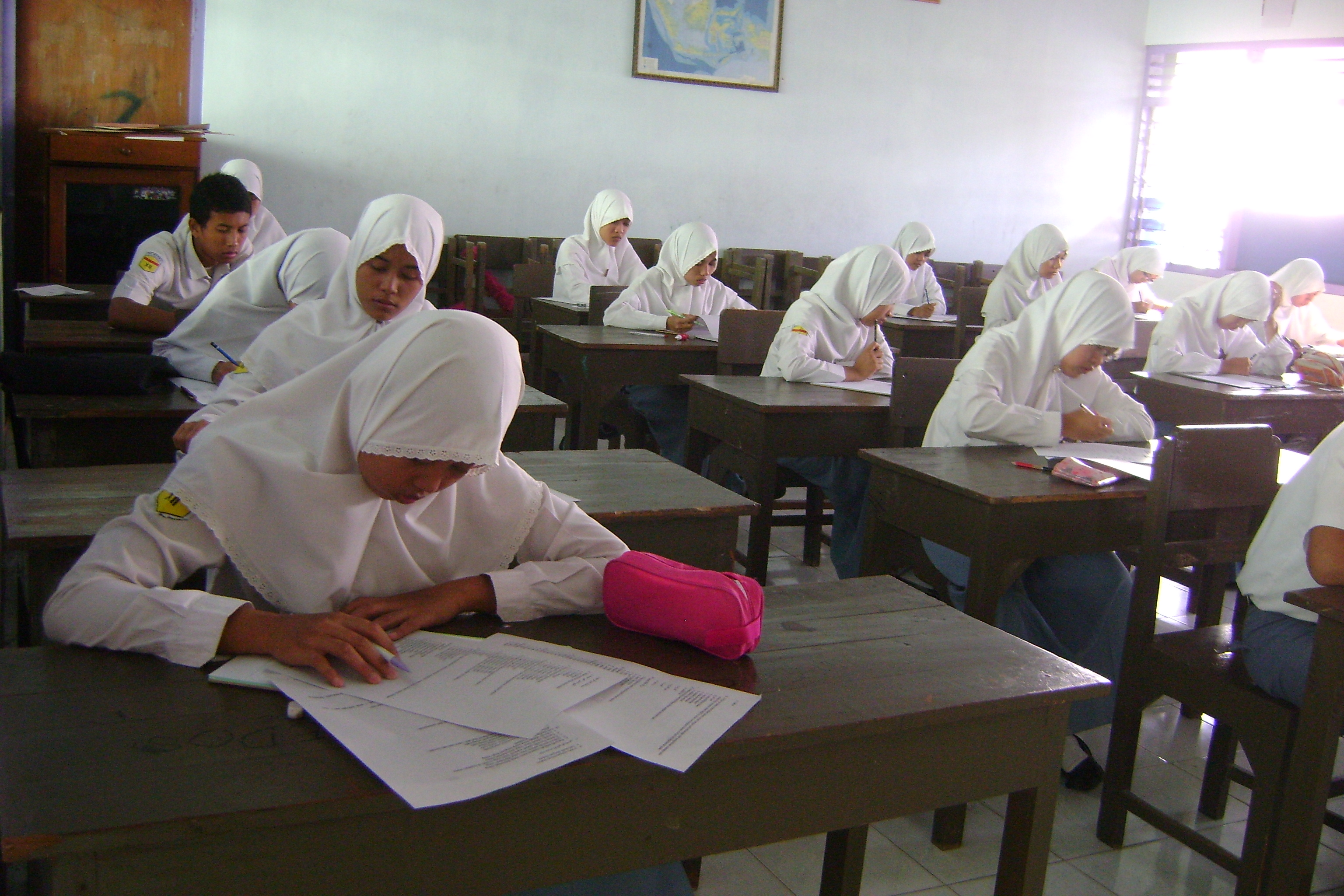 National Exam 2009, Indonesia